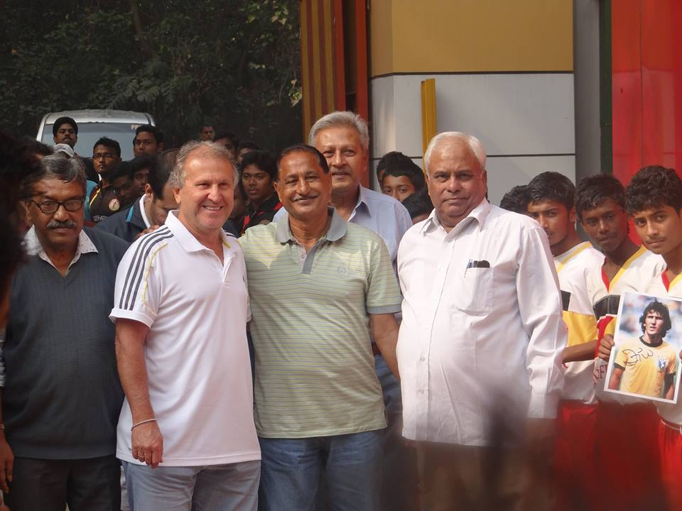 Zico is lota Bengal tent